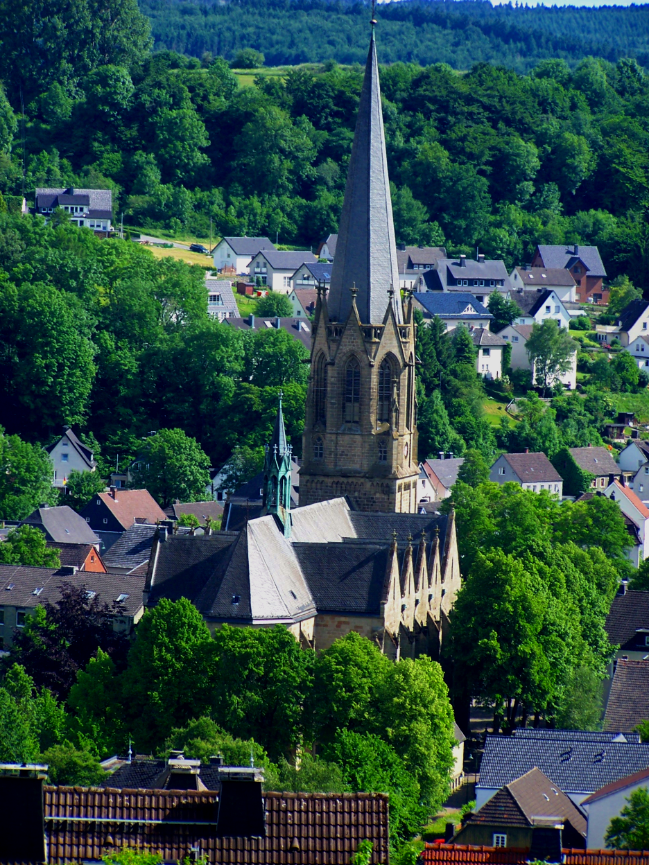 St. Pankratius, Warstein (DE)